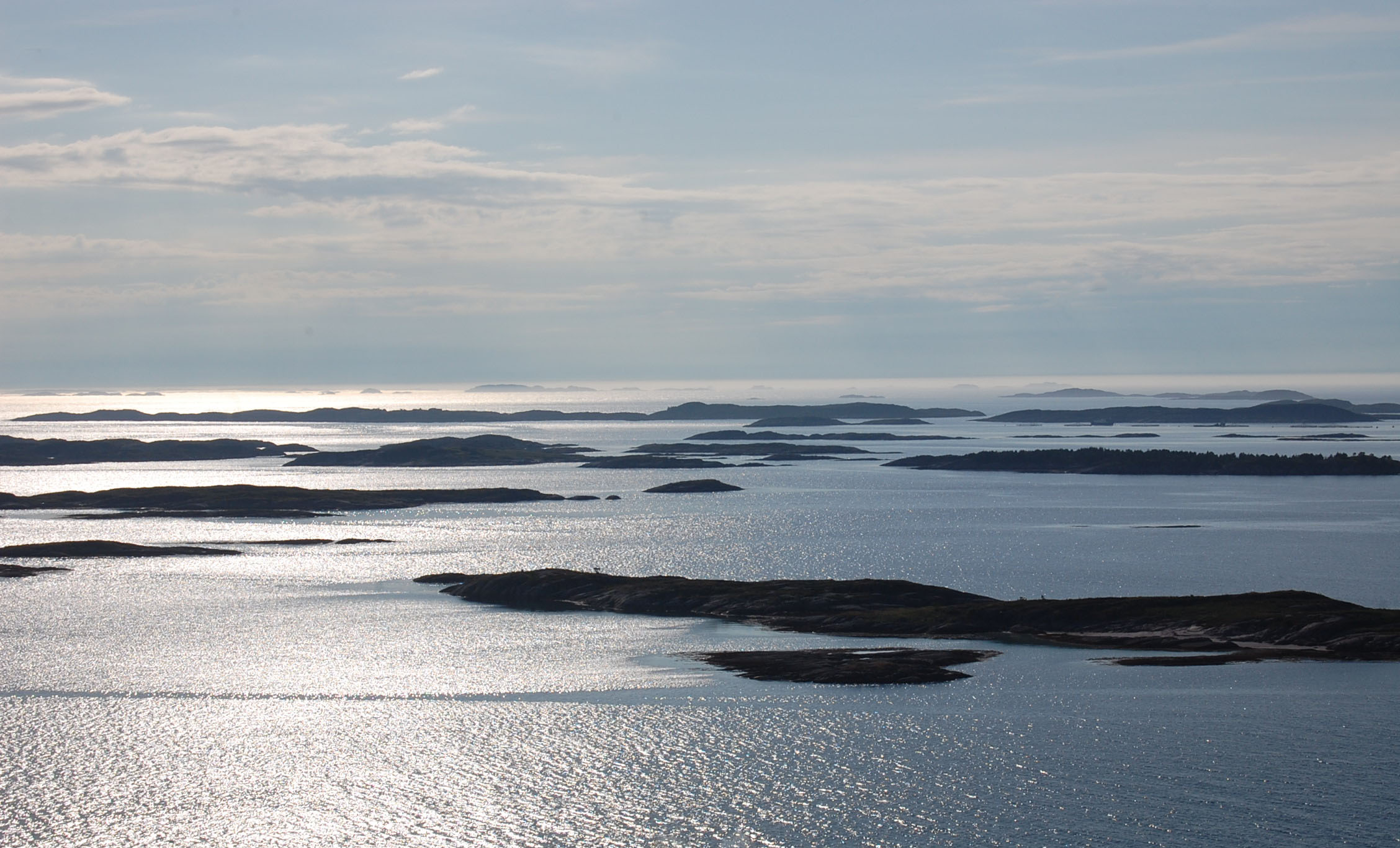 Some of the hundreds of islands around Bolga